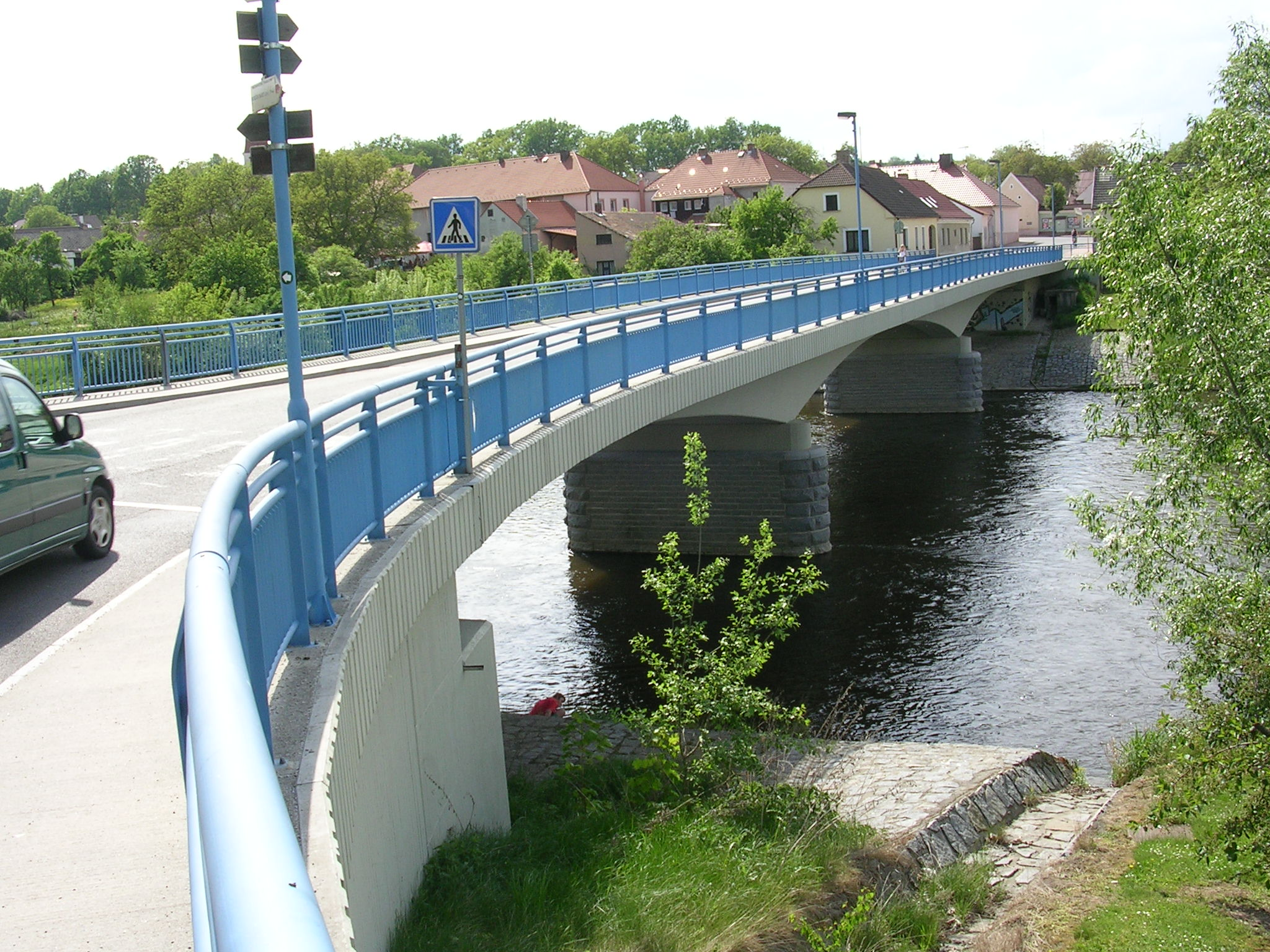 Boršov nad Vltavou, České Budějovice District, South Bohemian Region, the Czech Republic. A road bridge.